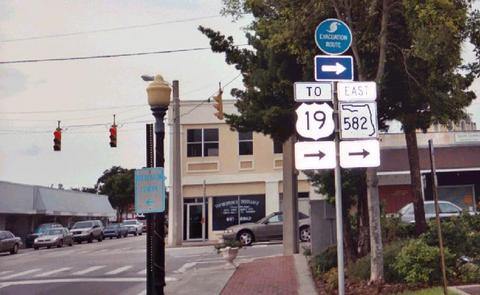 ALT US 19 & FL 582 in Tarpon Springs, Florida(July 28, 2003)